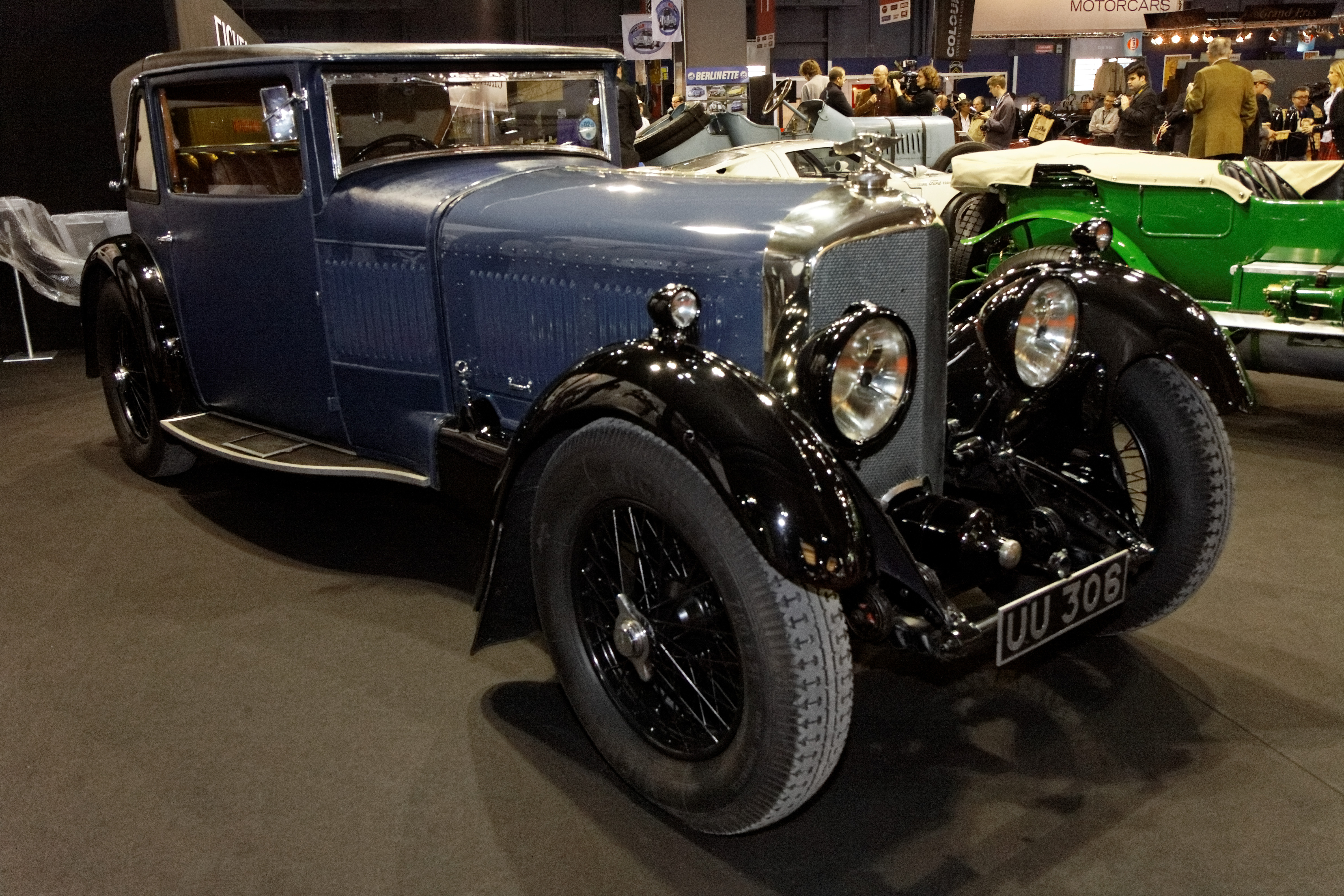 Bentley Speed sixDelivered June 1929, original body: saloon by Freestone & Webb Chassis FR2360 11' 6" wheelbase Engine FR2633 Speed Reg UU 306 Source of data—Vintage Bentleys